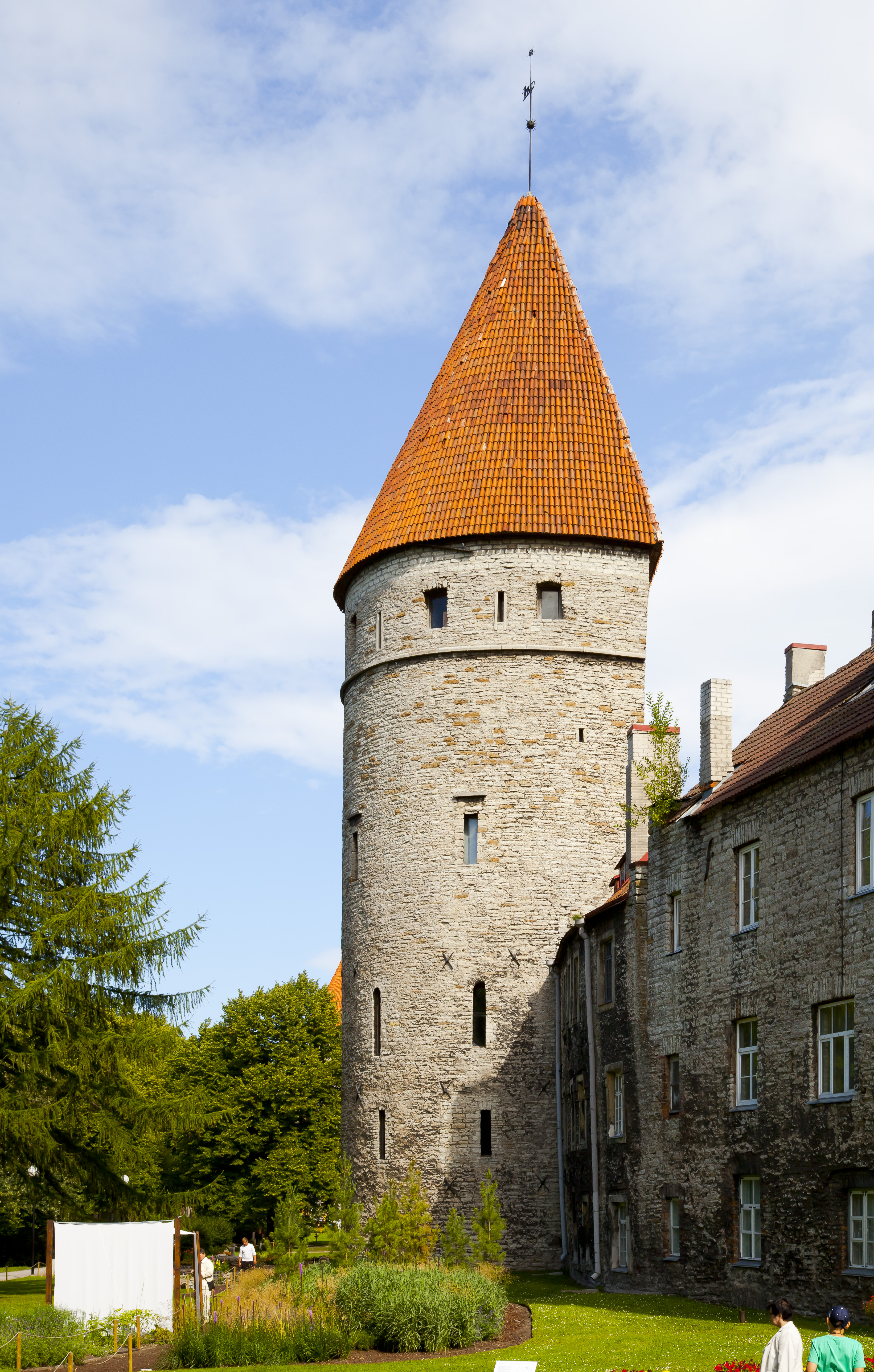 Walls of the old city of Tallinn, Estonia